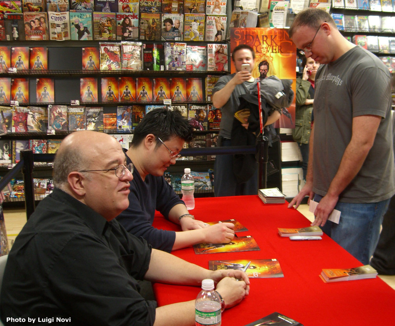 Writer Peter David and artist Jae Lee at the midnight signing of The Dark Tower: The Long Road Home #1 at Midtown Comics in Times Square, Manhattan.